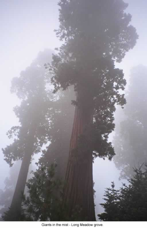 Sequoiadendron giganteum at Sequoia National Forest, Long Meadow Grove, CA